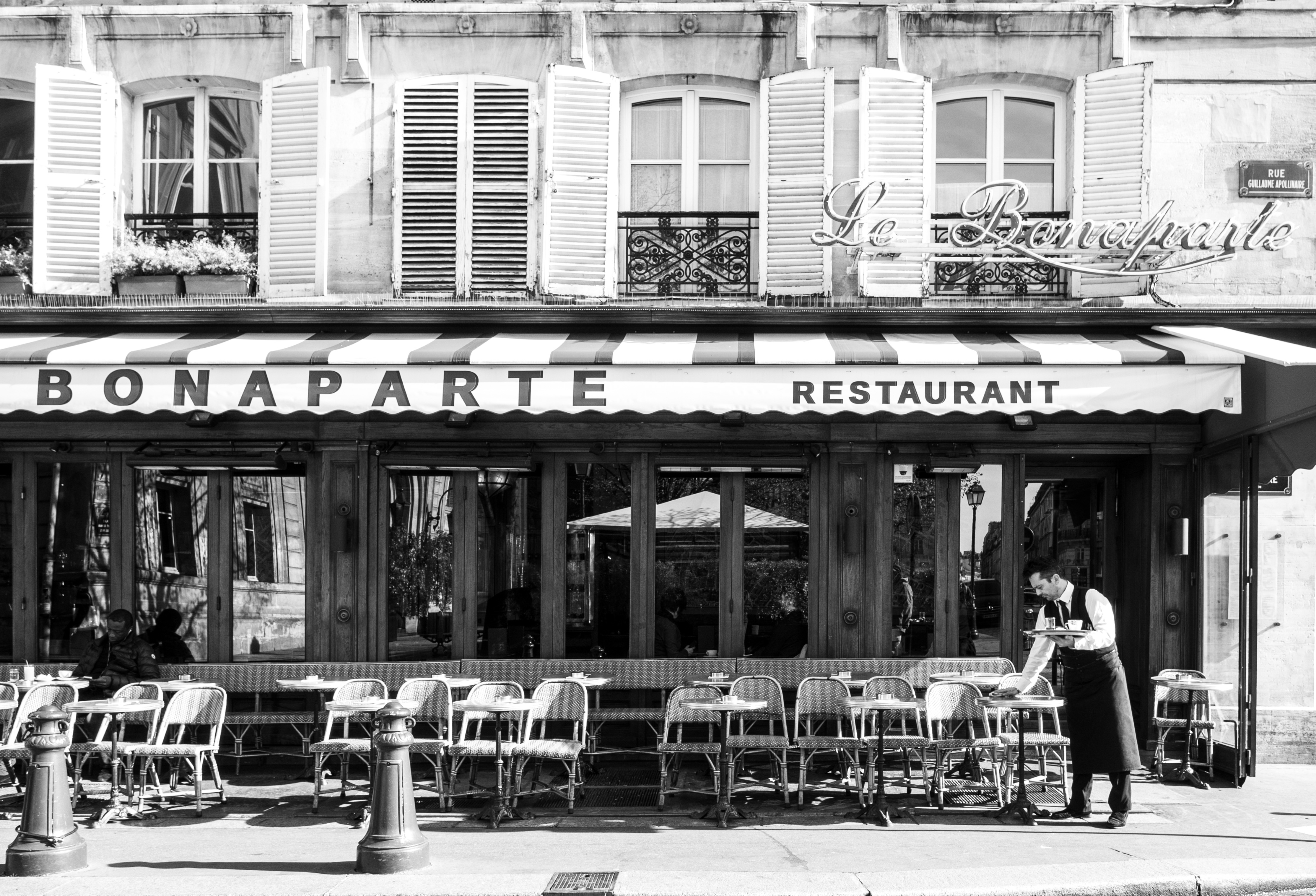 Le Bonaparte, 42 Rue Bonaparte, 75006 Paris, France.